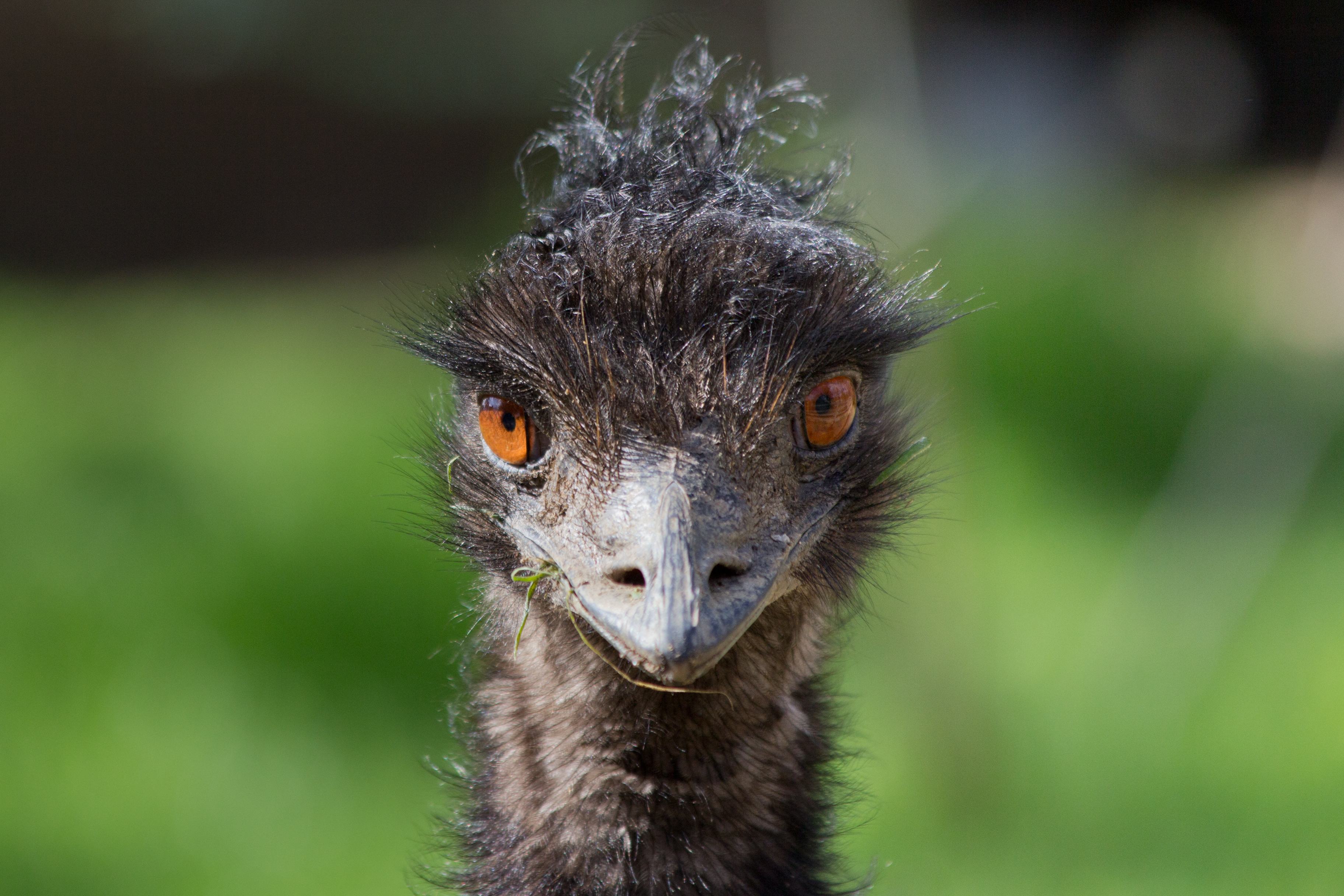 A staring emu (Dromaius novaehollandiae), in the Zoo of Madrid, Spain.